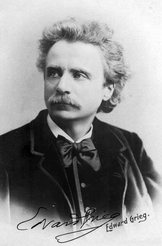 Portrait of Edvard Grieg, looking left. Carte de visite with signature: the portrait was published in The Leisure Hour (1889).[1] An engraving of it was made by T. Johnson and published in The Century (1894).[2]